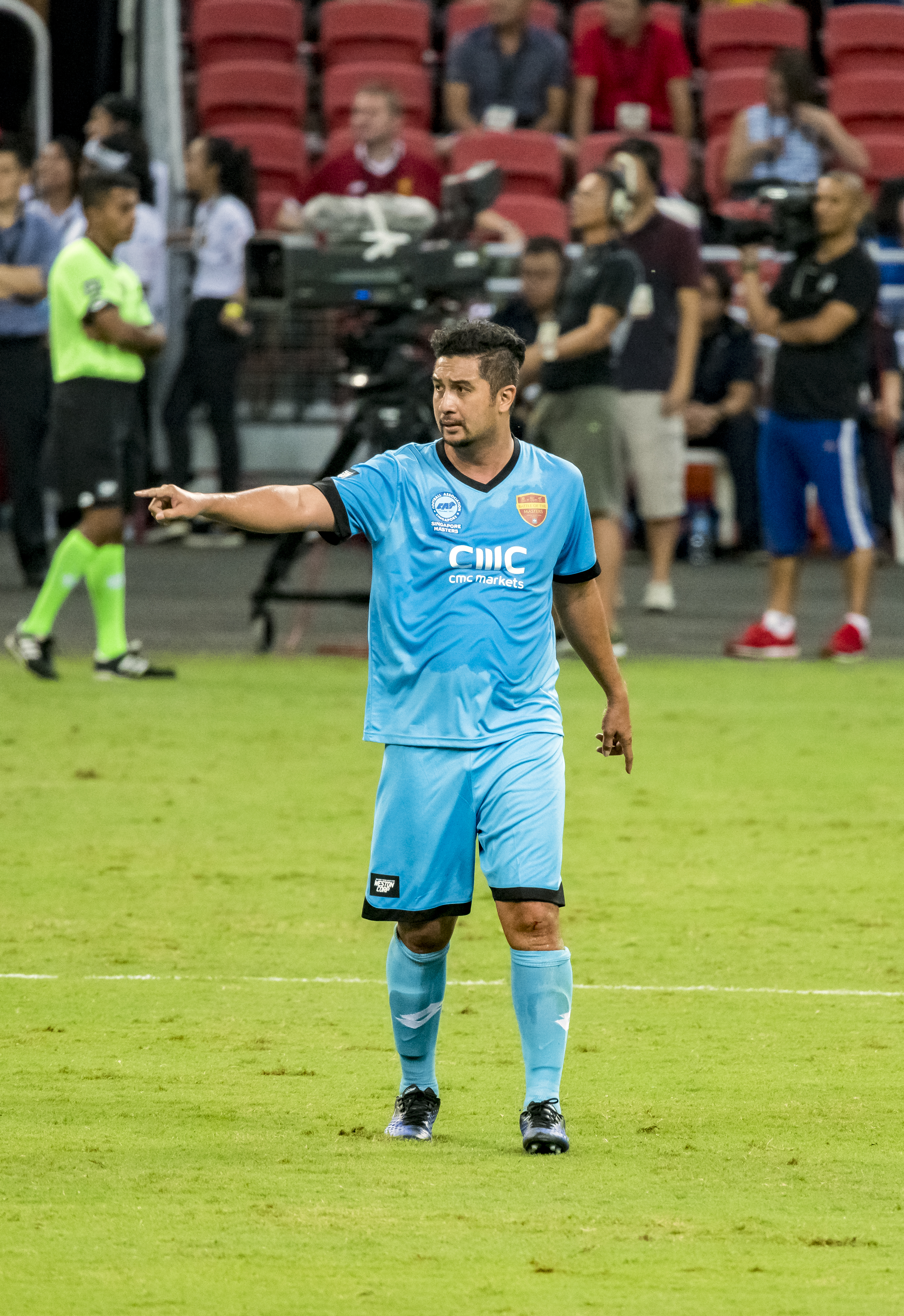 aide iskandar singapore lions masters 2017